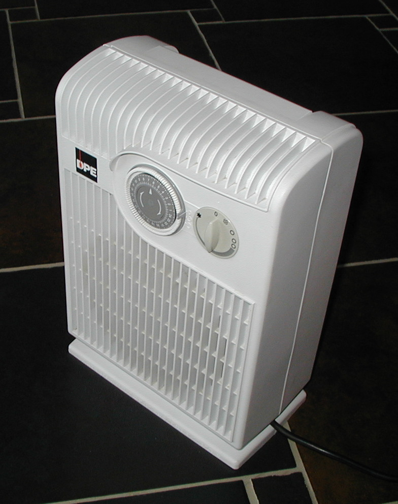 Fan heater. Picture taken (18 Dec 2005) und uploaded by Roger McLassus.